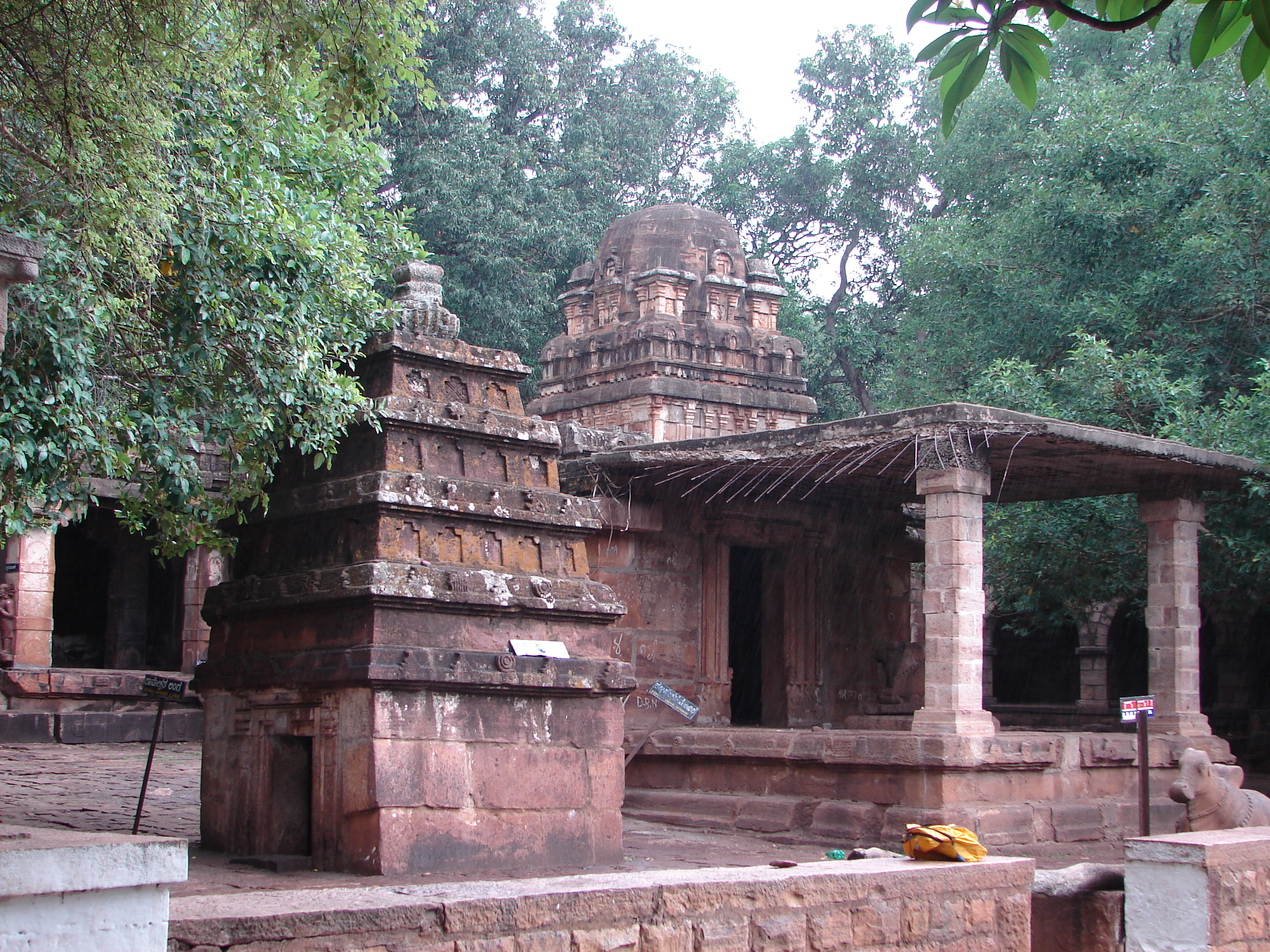 This image of the Mallikarjuna temple was taken at Mahakuta, in Bagalkot district, Karnataka state, India. The Mahakuta group of temples were consecrated in the 6th-7th century time period by the Badami Chalukyas.